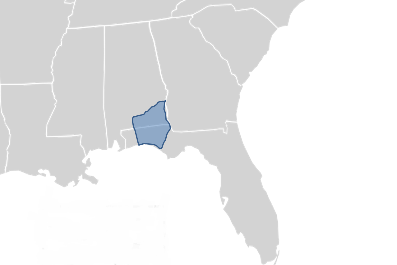 Range map of the Escambia Map Turtle (Graptemys ernsti), based on C.H. Ernst and J.E. Lovich. (2009) "Turtles of the United States and Canada. 2nd Ed." Baltimore: Johns Hopkins University Press, pg 283